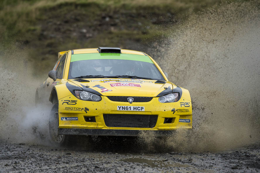 Wales Rally Great Britain 2012 Emil Axelsson,Hafren Sweet Lamb 1,Motorsport,PG Andersson,Proton Motorsport,Proton Satria Neo S2000,Rally,Rallye,SS2,WP2,WRC,Wales Rally GB